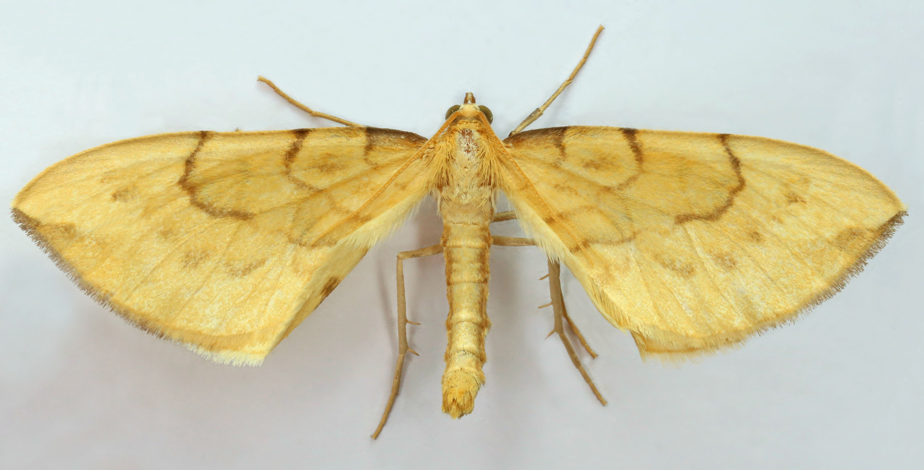 Gandaritis pyraliata, Barred Straw, Trawscoed, North Wales, July 2016